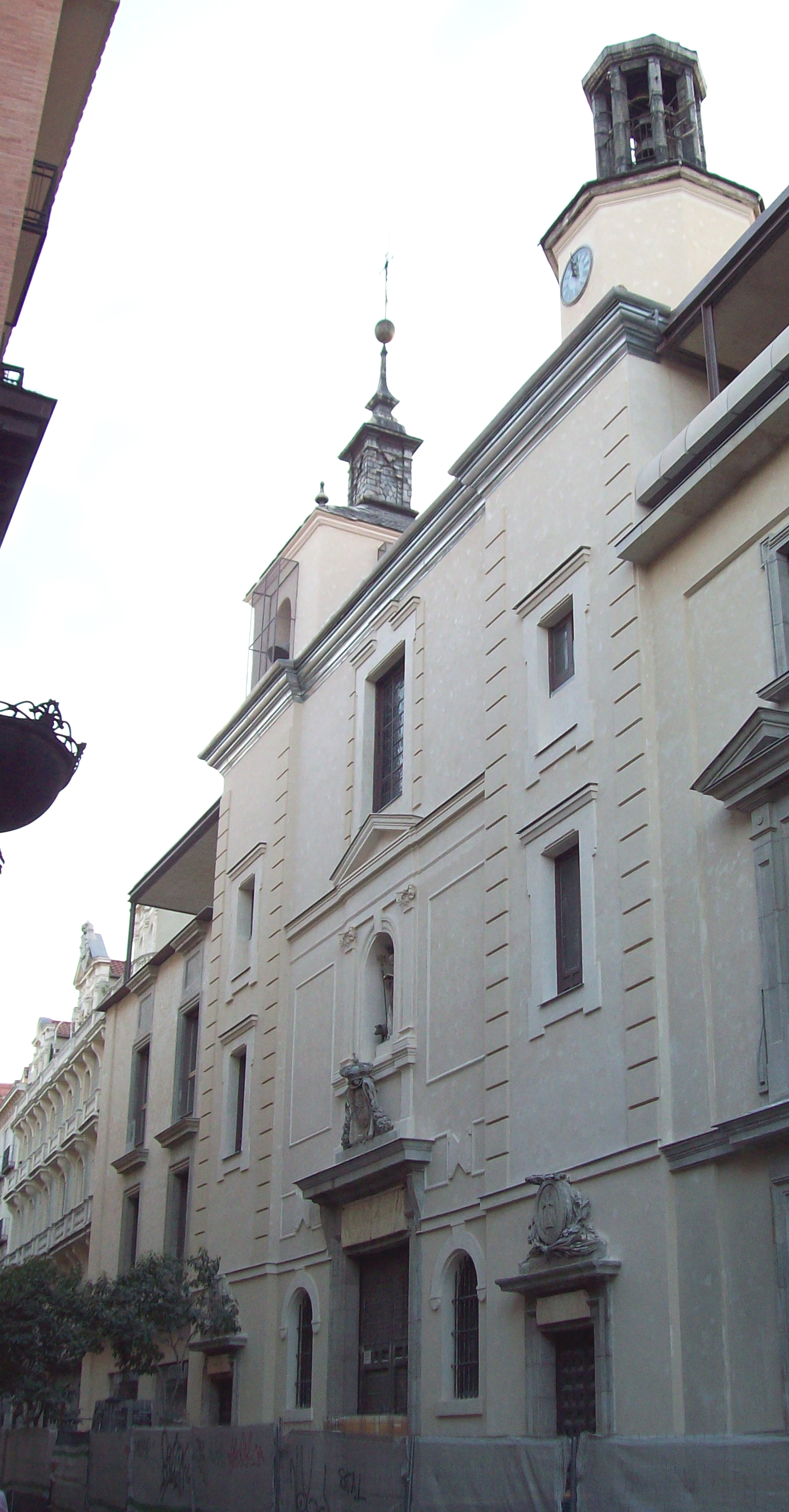 View of St. Anthony Church in Madrid (Spain) under restoration.